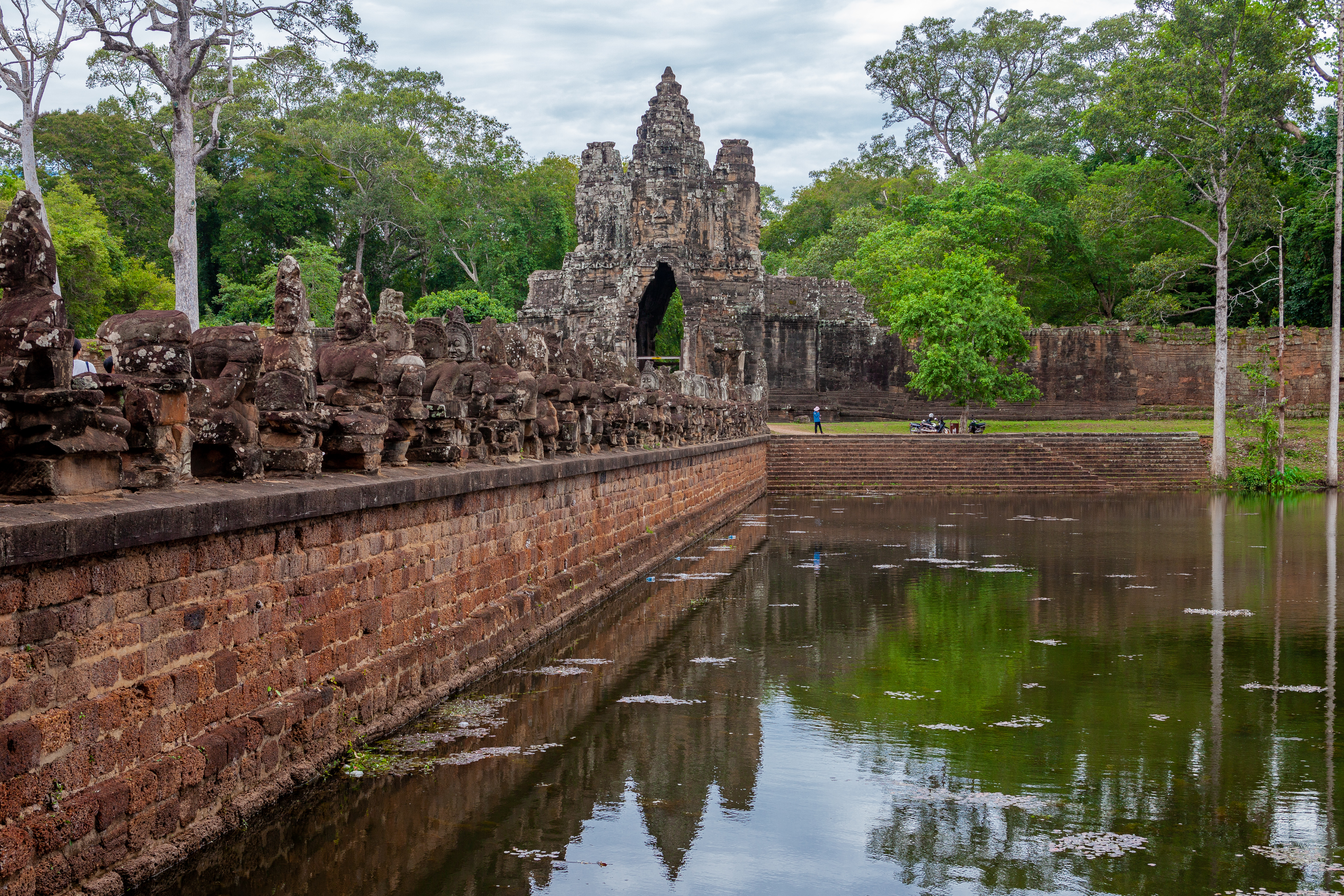 The South Gate has been the most extensively restored and is the most complete. On the road from Angkor Wat and Siem Reap, it is the first point of entry to the ‘Great City’. Two rows of giants, holding seven-headed giant serpents, line the approach to the gate: 54 deities on the left, 54 demons on the right. The gate-tower itself, 23 m high, bears four faces looking in the cardinal directions.